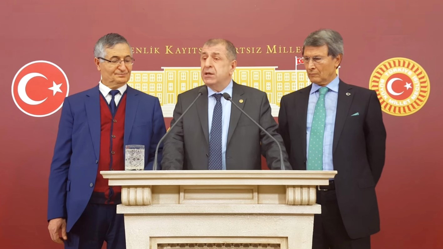 Nationalist Movement Party politicians Özcan Yeniçeri, Ümit Özdağ and Yusuf Halaçoğlu (left to right)